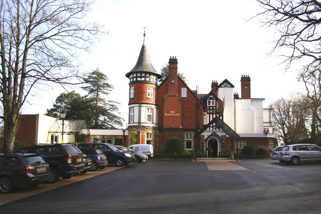 The Berystede Hotel Victorian mansion built c1870, gutted by fire in 1886 and remained derelict until 1903 when it was restored and converted to a hotel